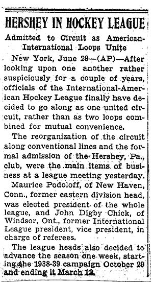 I-AHL Consolidated, June 28, 1938